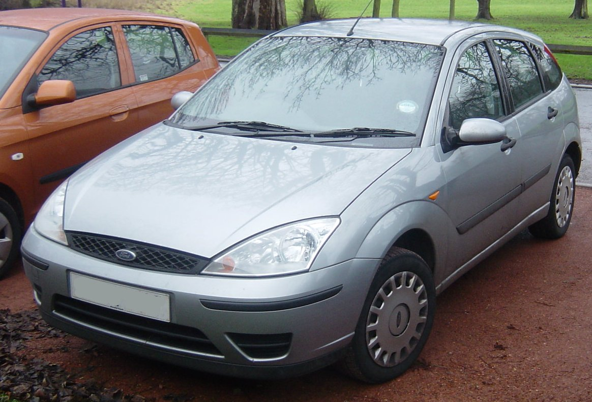 created by Mazurka